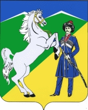 Coat of arms of Otvazhnaya, Labinsk Raion, Krasnodar Krai, Russia.